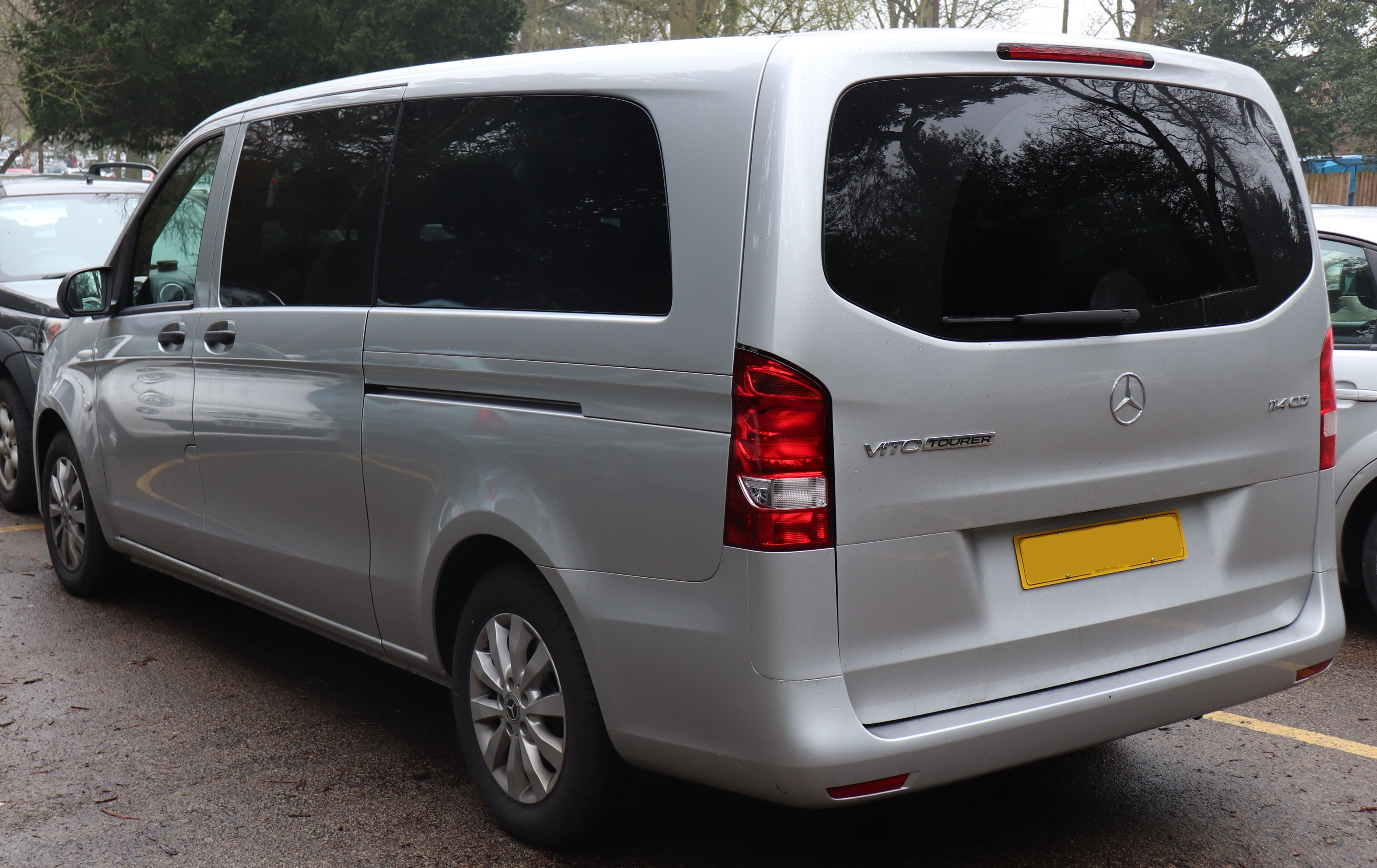 2018 Mercedes-Benz Vito 114 Bluetec Tourer Select 2.1 Taken in Warwick